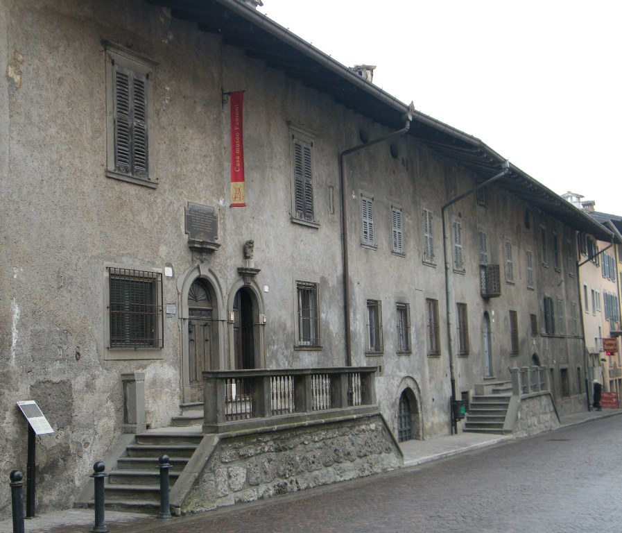 House Fantoni. Rovetta.